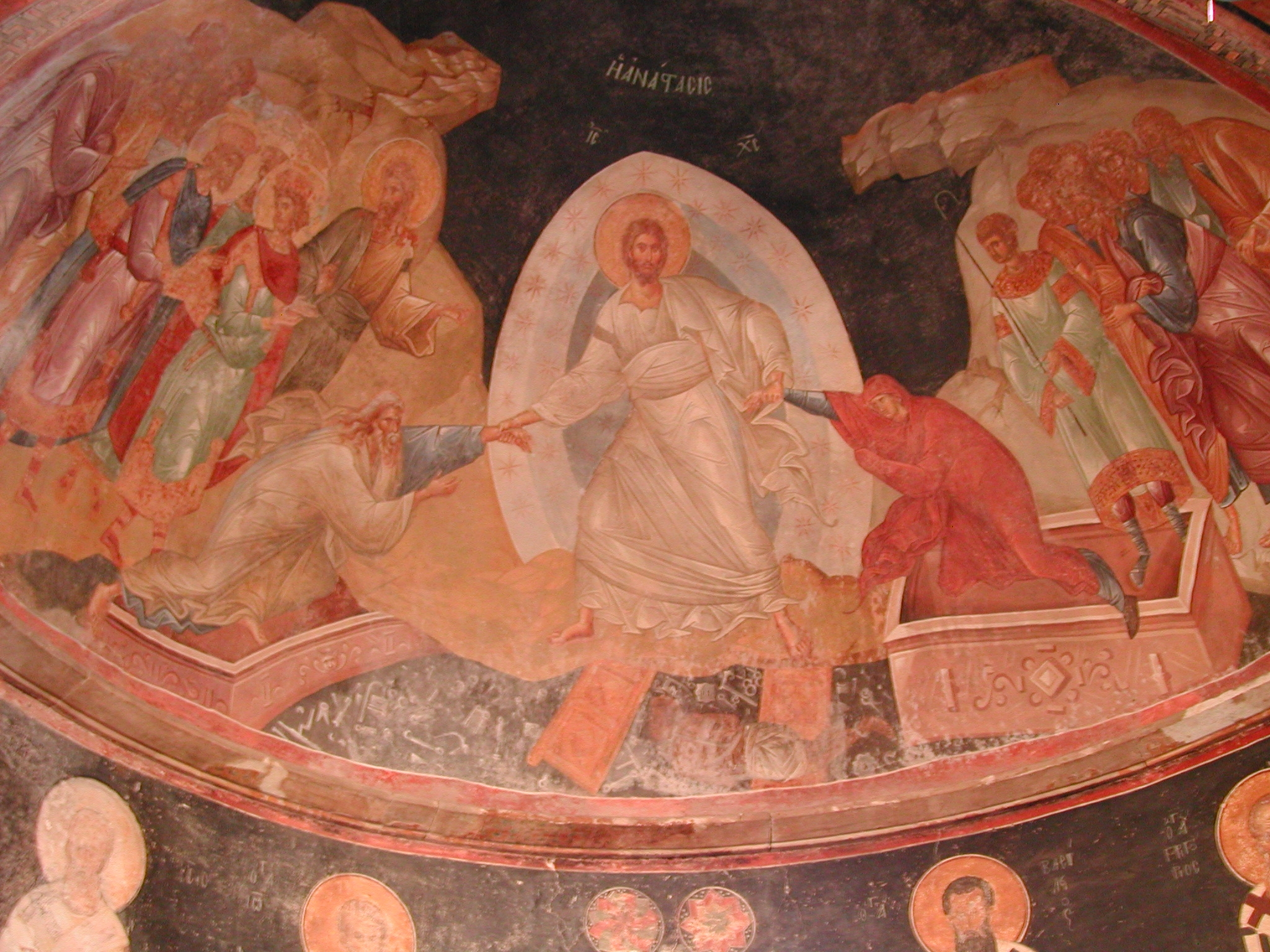 Interior of Chora Church